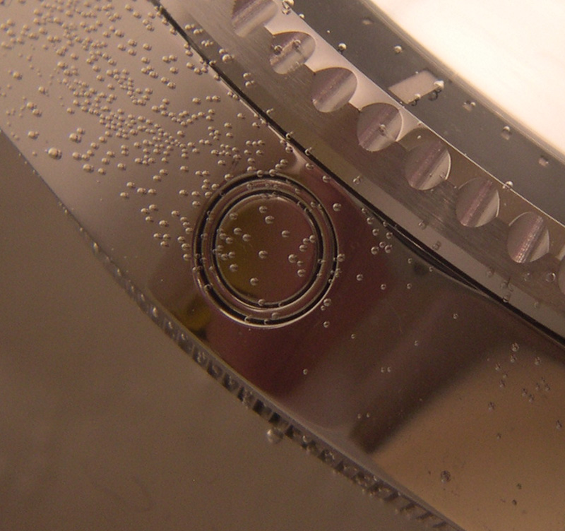 An integrated Helium release valve as used by Rolex in the current Deepsea model.